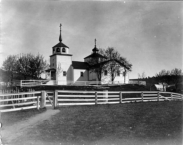 From John Cobb field notebook: Russian Church, Kodiak, Alaska. June 22, 1908 Subjects (LCTGM): Orthodox churches--Alaska--Kodiak Subjects (LCSH): Orthodox Eastern church buildings--Alaska--Kodiak; Russian Orthodox Greek Catholic Church of America